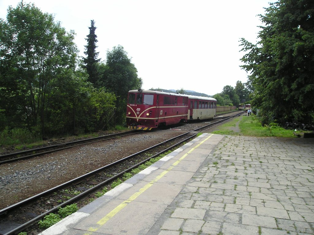 Train in railway station Třemešná ve Slezsku in Třemešná, Czech Republic